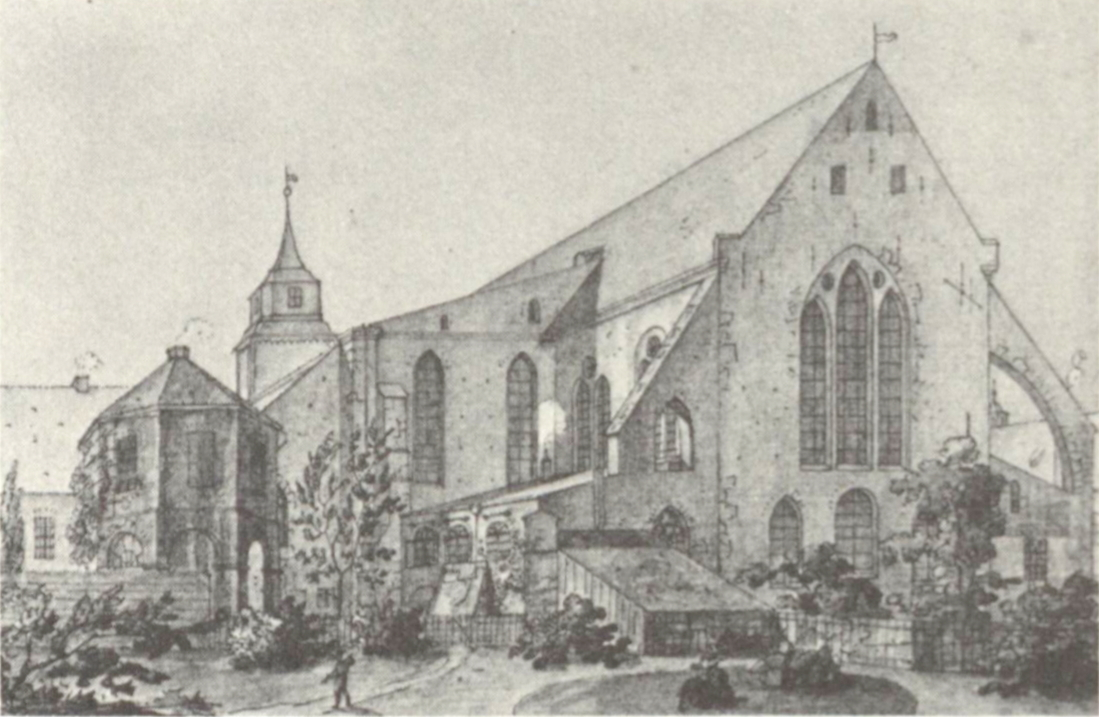 Brenen Cathedral from the east, drawing from about 1820. left of it the small two-storey tower called Glocke.